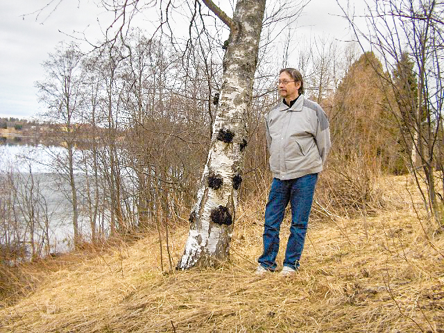 A birch infected by Inonotus obliquus